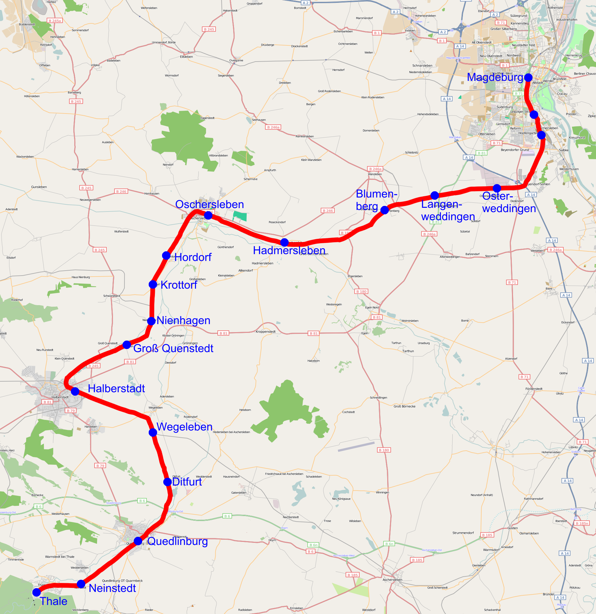 This map (Railroad Maps of Magdeburg–Thale in Saxony-Anhaltwas created from OpenStreetMap project data, collected by the community. This map may be incomplete, and may contain errors. Don't rely solely on it for navigation.